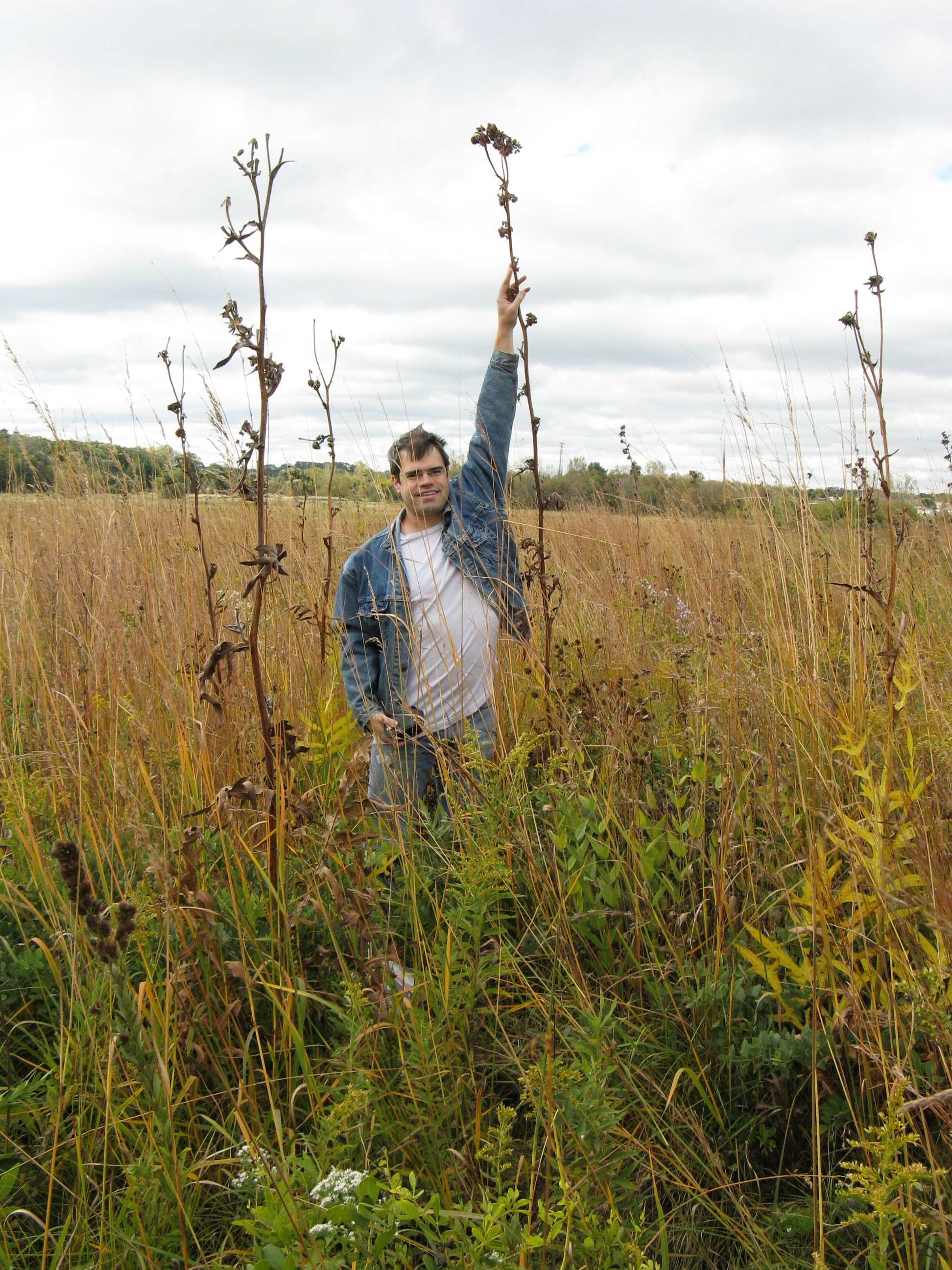 Person standing next to a compass plant nearly ten feet tall on a prairie restoration in NE Illinois, USA